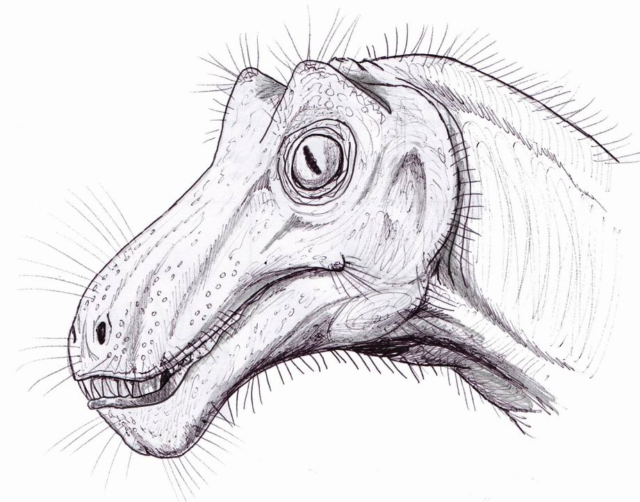 A reconstructed bust of Lemurosaurus pricei